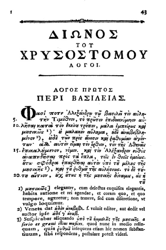 Orations (Orationes) of Dio Chrysostom edited by Johann Jacob Reiske, page 43. Oration 1, ΠΕΡΙ ΒΑΣΙΛΕΙΑΣ (On Kingship)